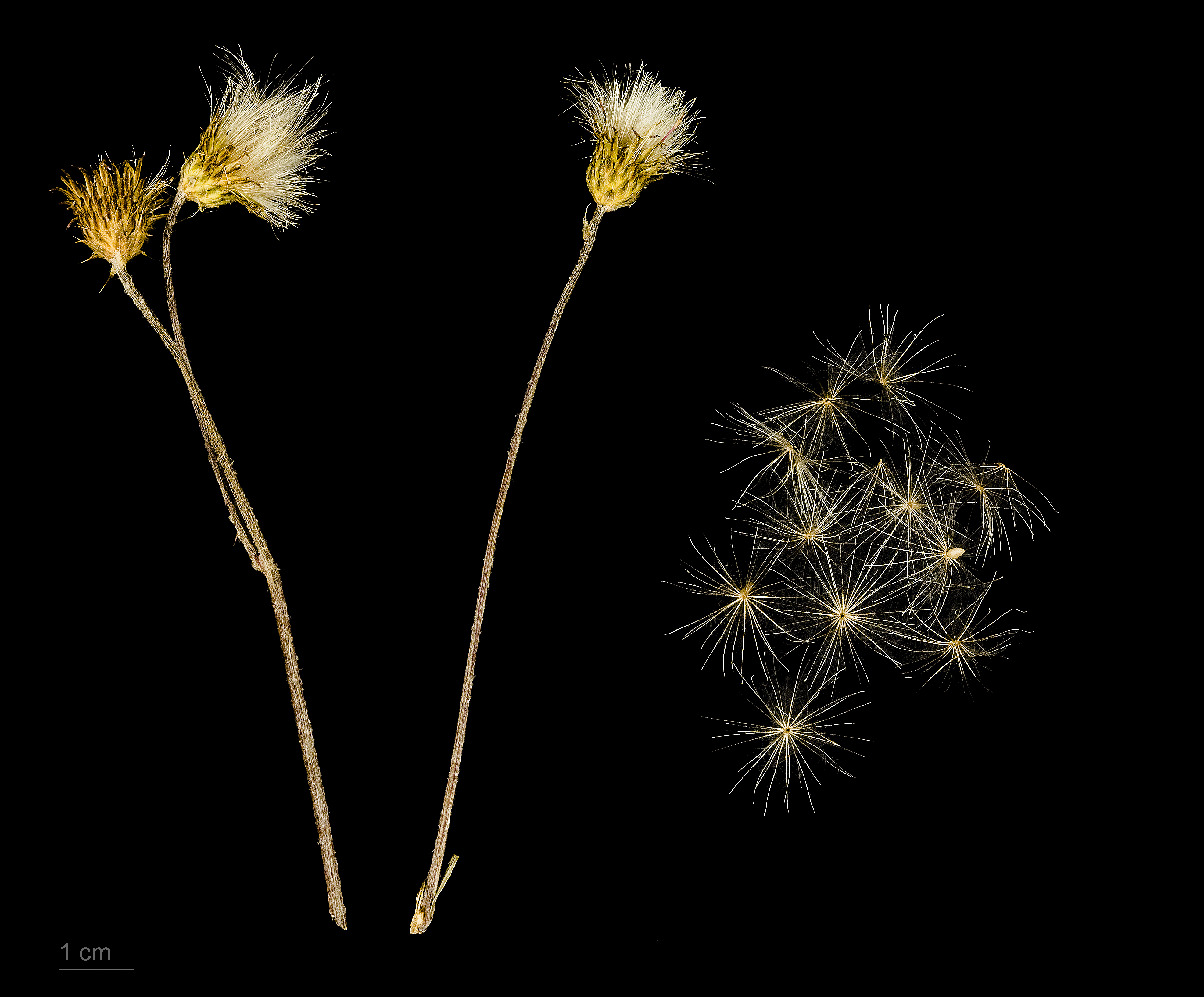 Cirsium monspessulanum , fruits and seeds